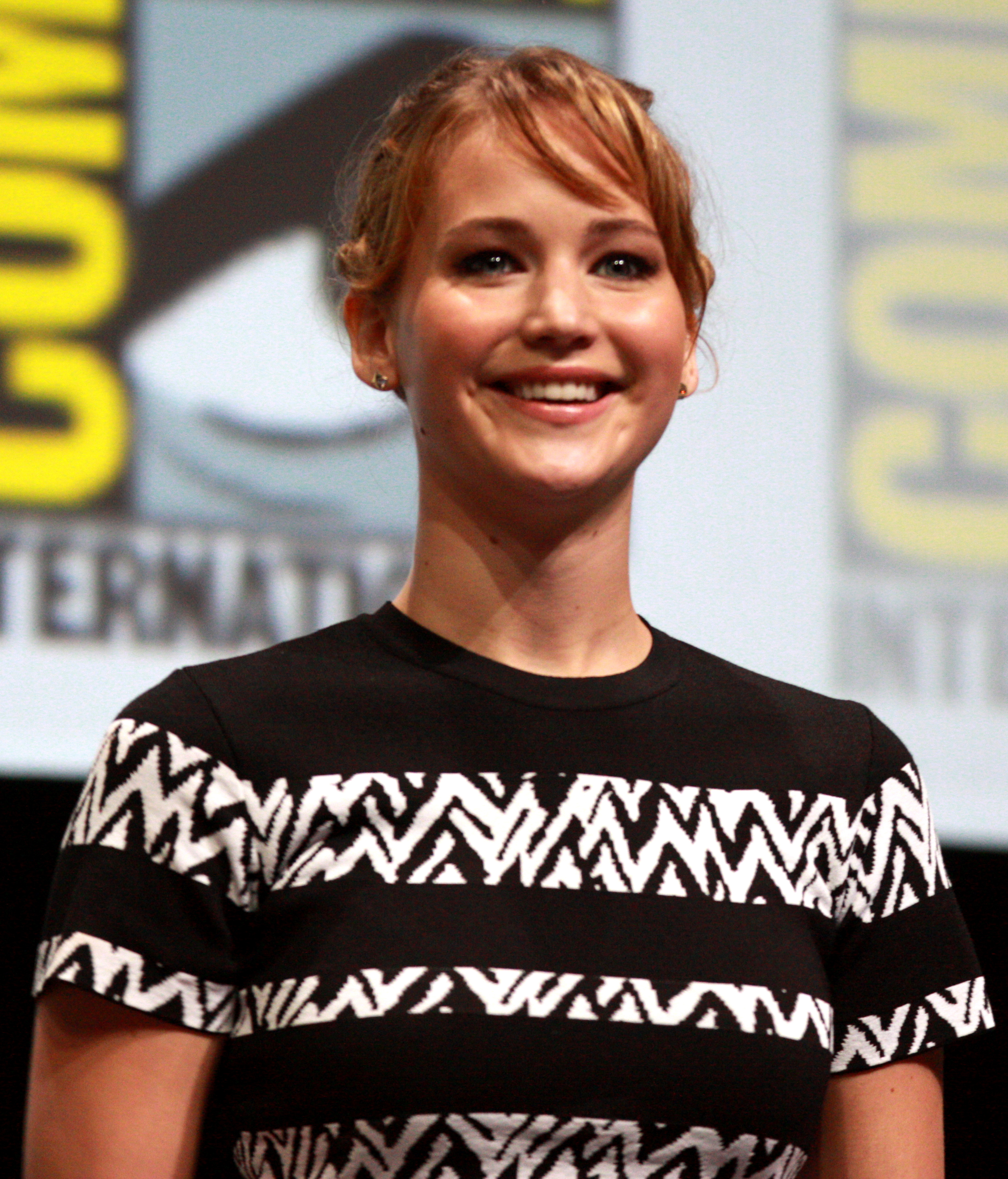 Jennifer Lawrence at the 2013 San Diego Comic Con International in San Diego, California.